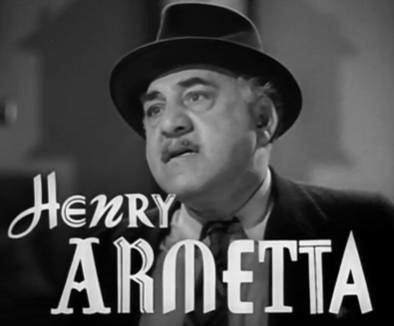 Henry Armetta in The Big Store - trailer (cropped screenshot)